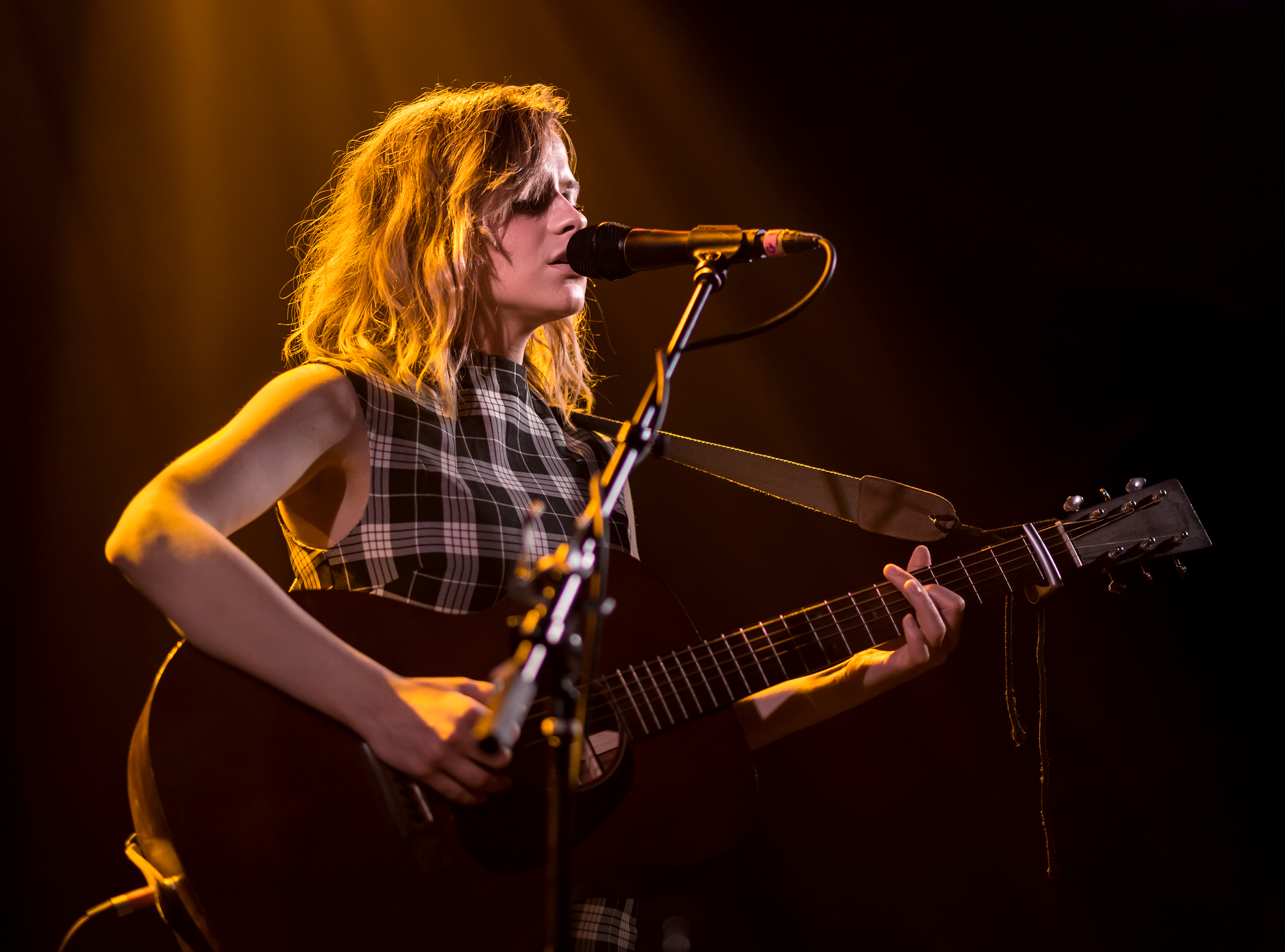 Gabrielle Aplin performing live at The Troubadour in Los Angeles, California, on Saturday, March 10, 2018.